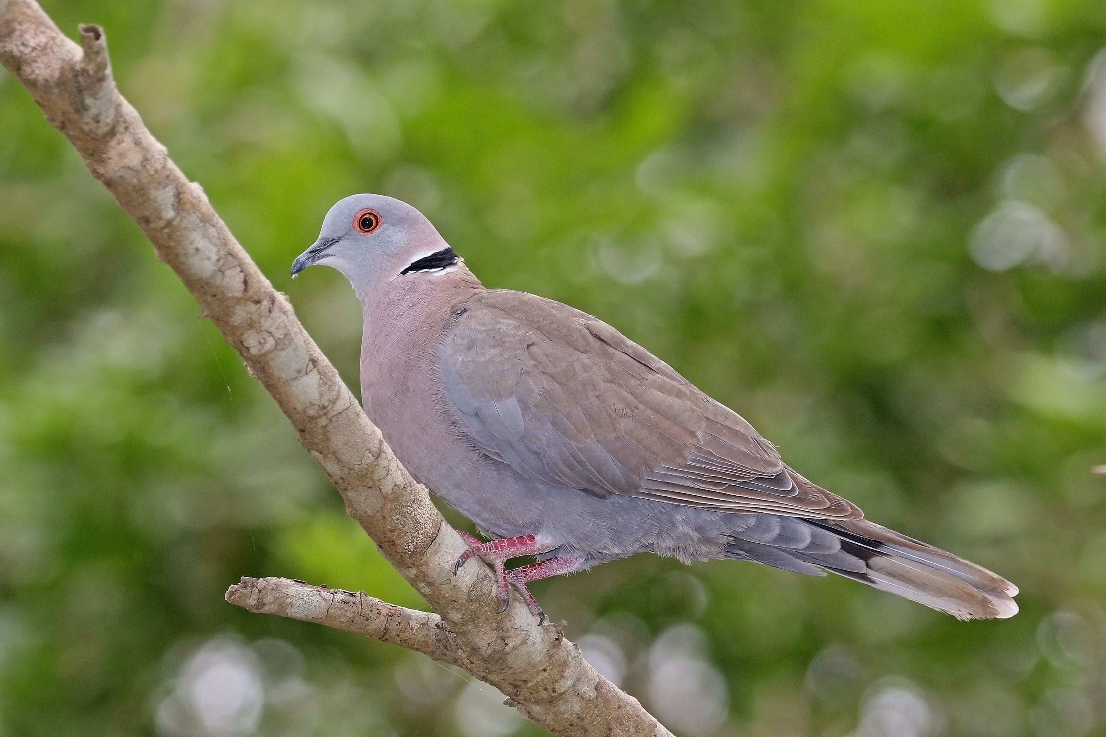 African mourning dove (Streptopelia decipiens shelleyi), The Gambia